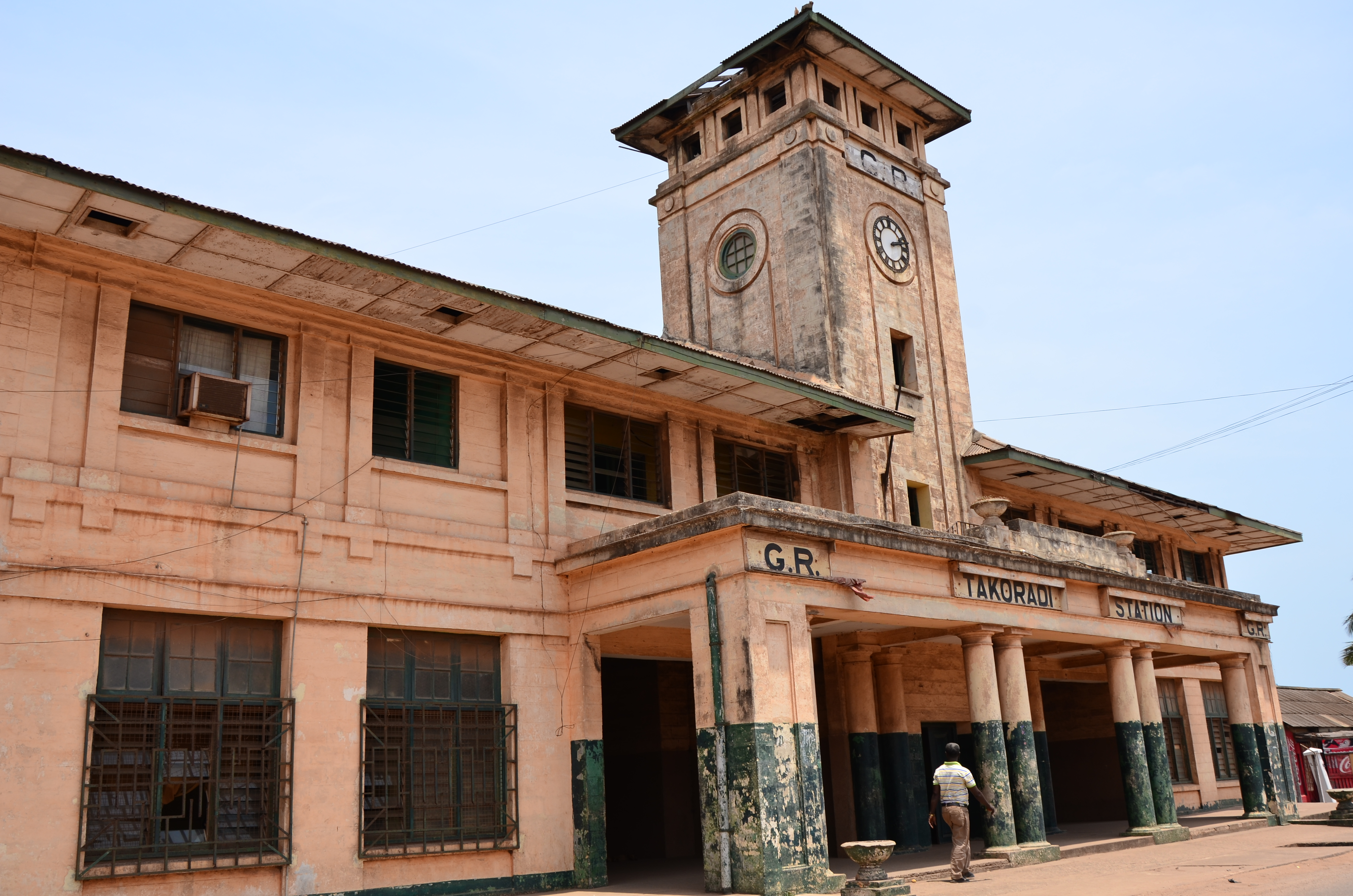 Sekondi-Takoradi's Takoradi railway station; front of Takoradi railway station, in Sekondi-Takoradi, Western Region, Ghana.